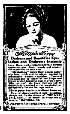 1920 newspaper ad for Maybelline cosmetics.